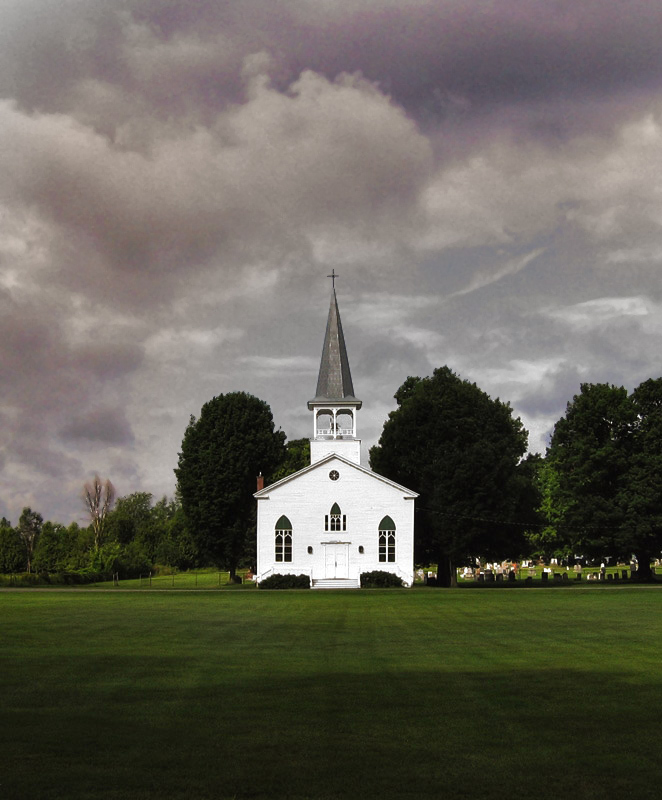 Église d'hatley